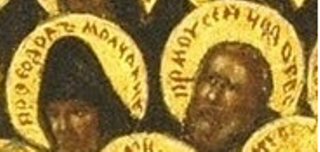 Detail of icons depicting the Cathedral of Kiev-Pechersk saints. The case of St. Theodore silent, St. Moses Miracle Worker